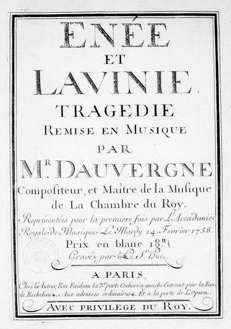 Frontispiece of the score for the opera ' composed by Antoine Dauvergne and published by the composer